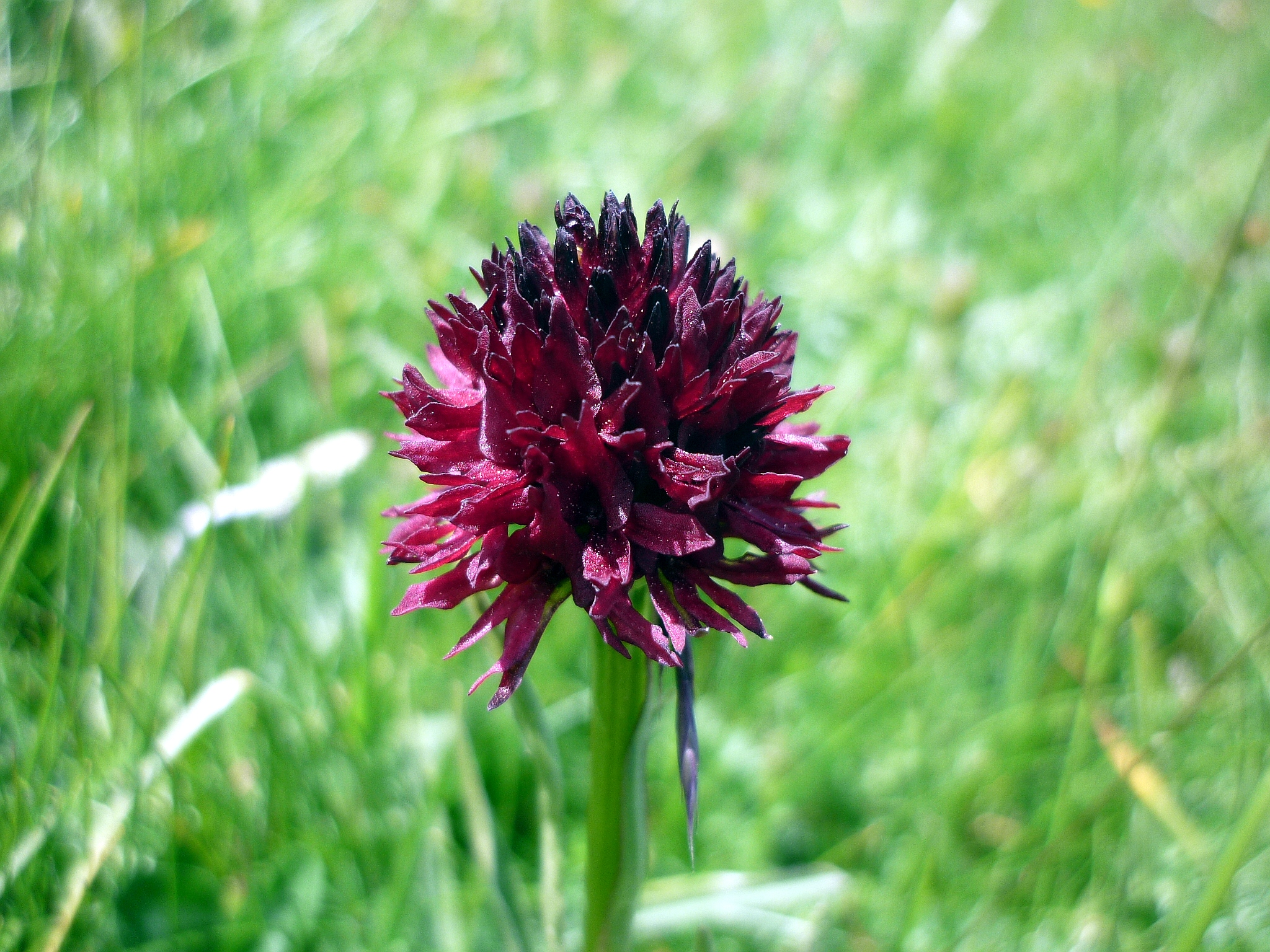 Nigritella nigra. Near Roca de la Pena, in l'Alzina d'Alinyà (Alt Urgell-Catalunya). To 1.790 m. altitude